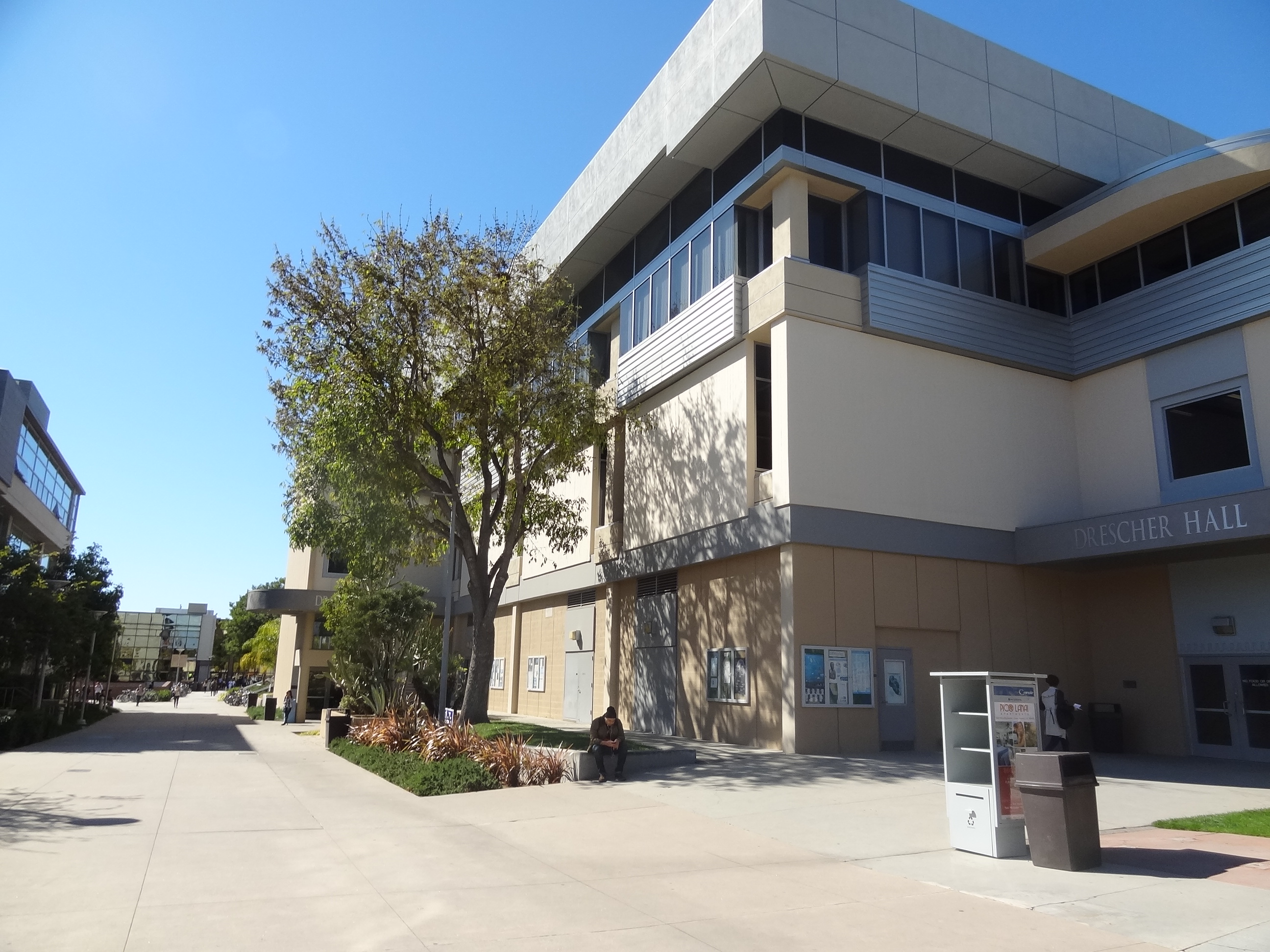 Drescher Hall at Santa Monica College.